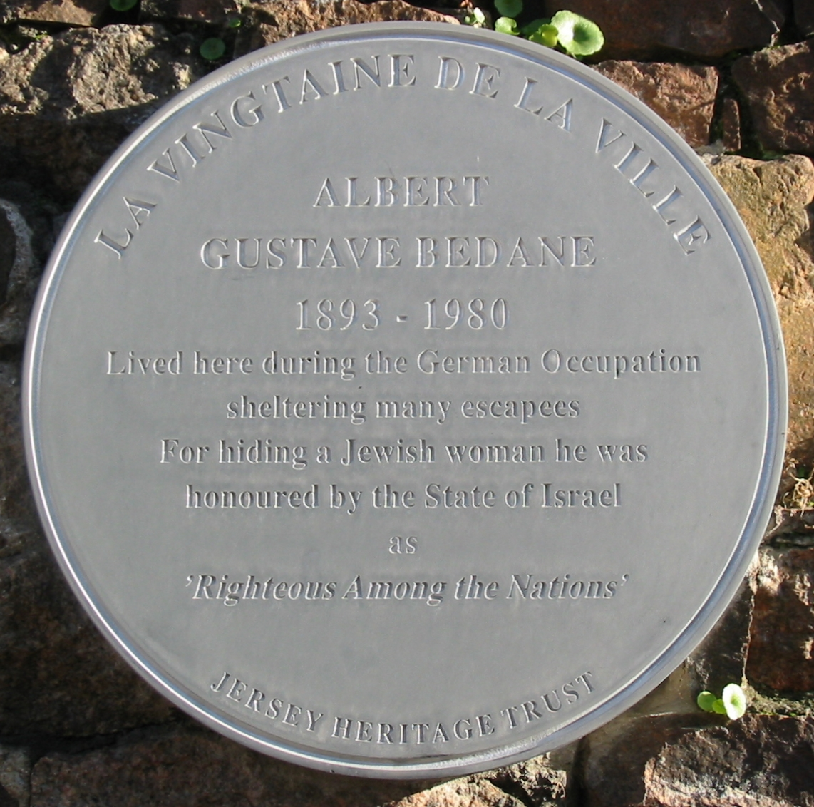 Plaque on site of house in Roseville Street, St. Helier, Jersey, of Albert Bedane, Righteous among the Nations.